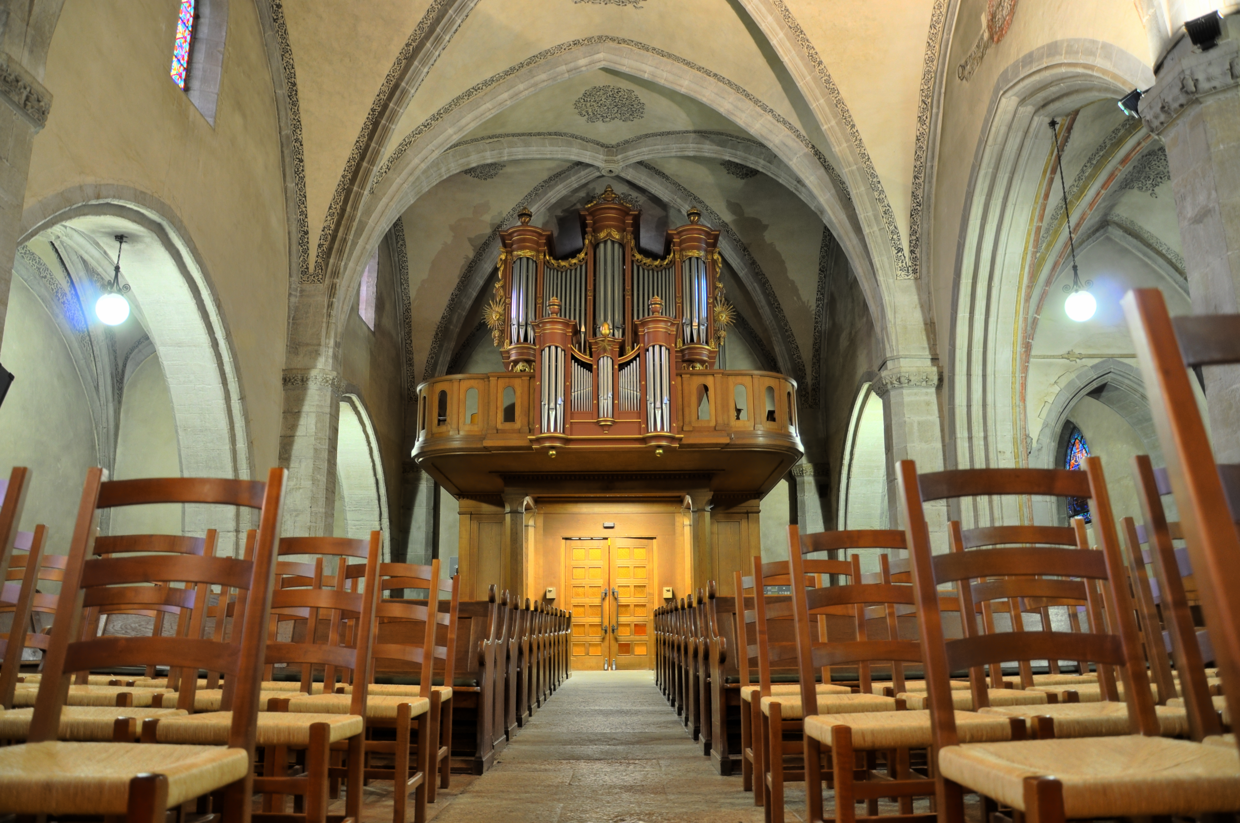 Organ of the Temple of Nyon, Vaud, Switzerland